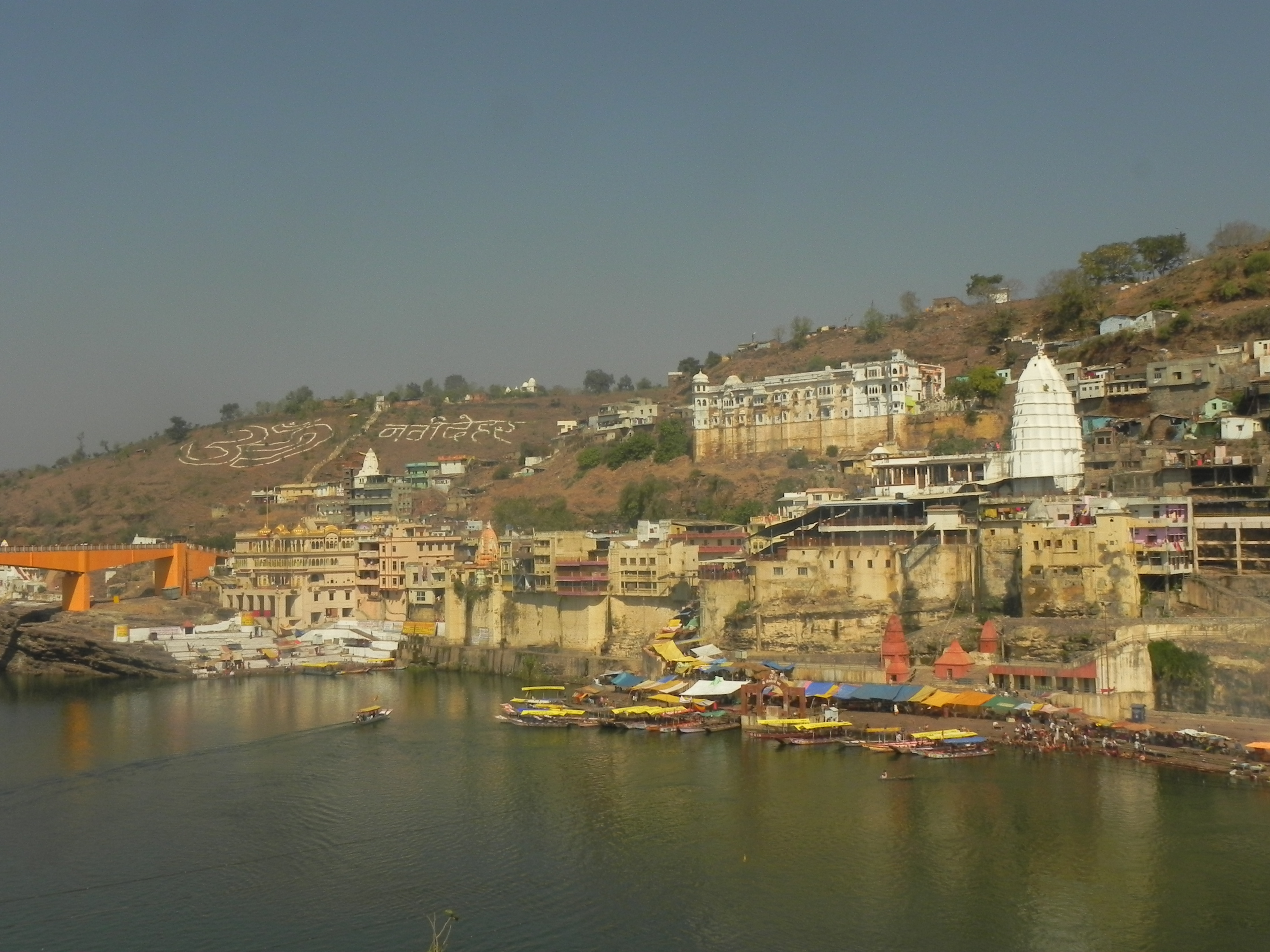 Omkareshwar, Shree Omkar Mandhata and Narmada River